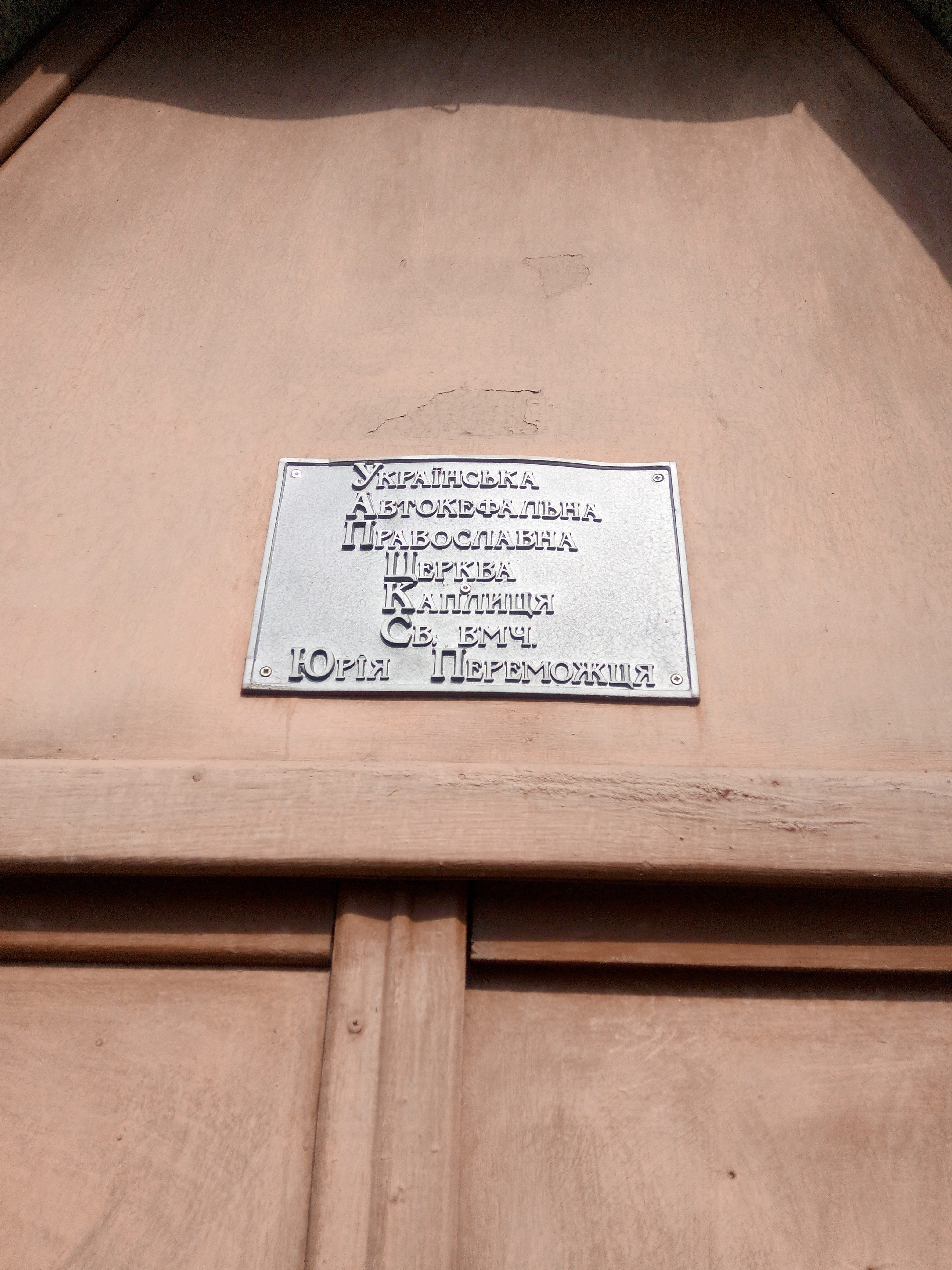 Inscription above the entrance to the St. George chapel in Poltava